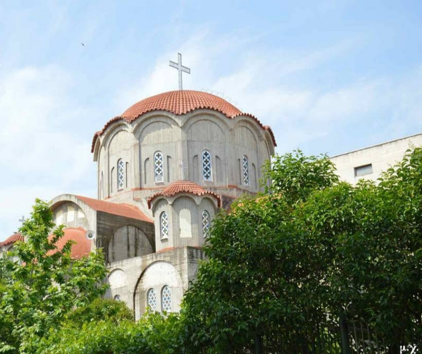 Church of Saint Fotini and St.Joseph, Evosmos, Thessaloniki, Greece